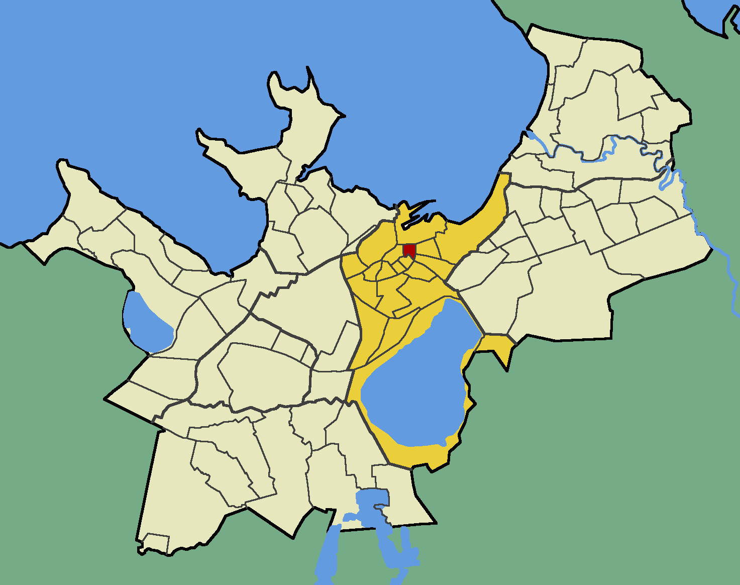 Map of Tallinn (Estonia) with borders of the quarters, Kesklinn district and Kompassi quarter emphasised